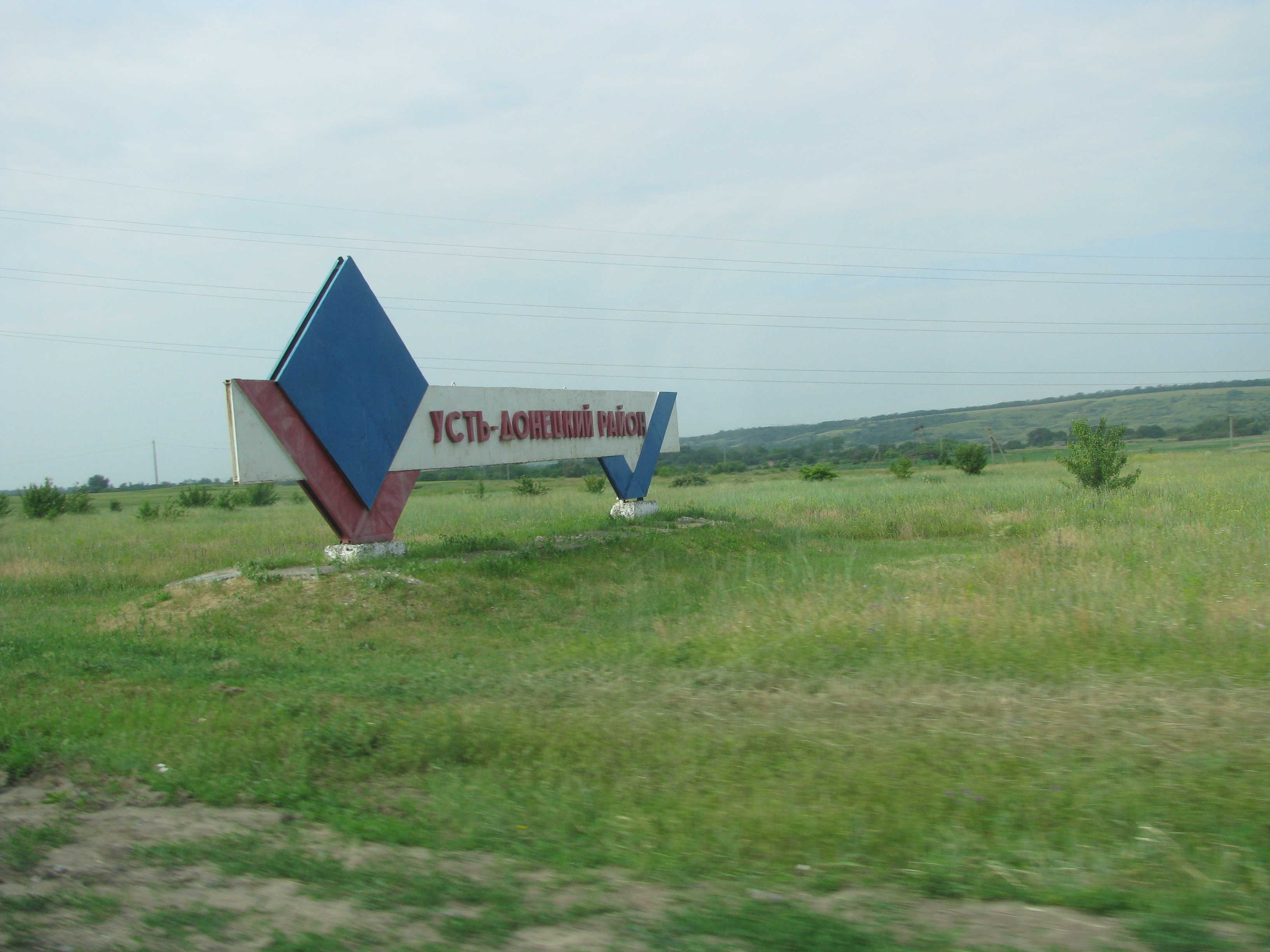 Ust-Donetsky District